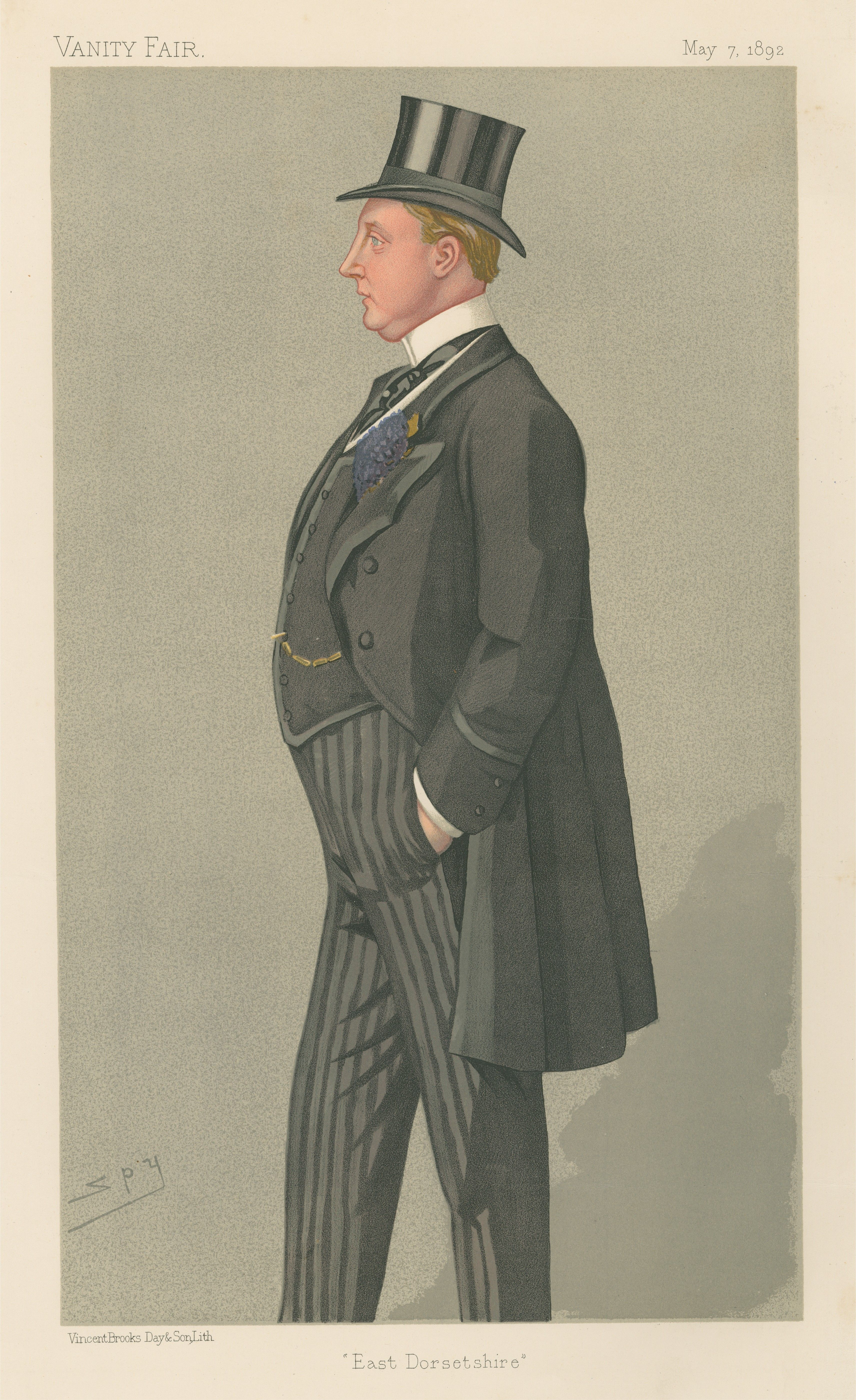 Statesmen No.591: Caricature of The Hon Humprey Napier Sturt MP. Caption reads: "East Dorsetshire"